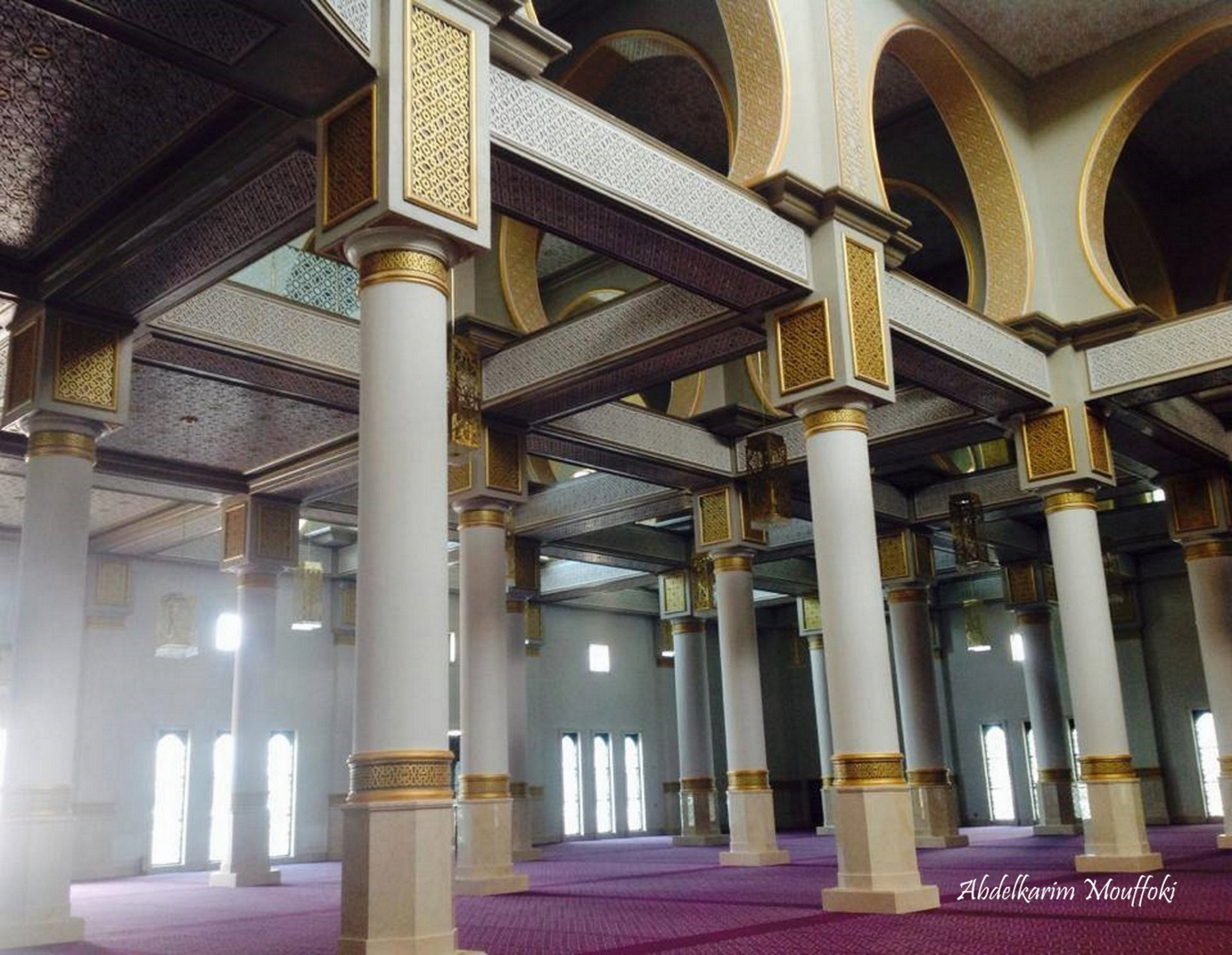 This is an image of Cultural Fashion or Adornment from Algeria